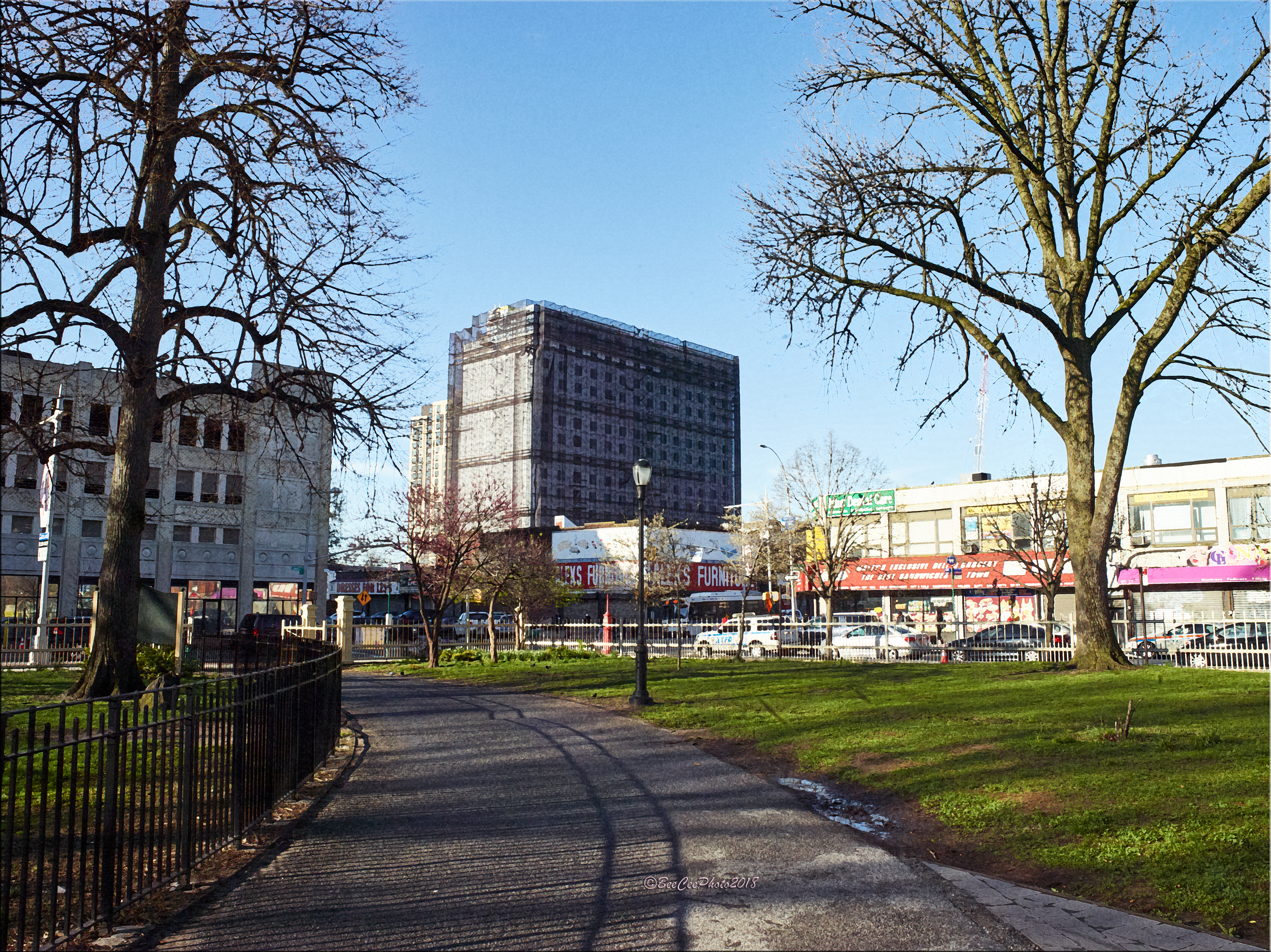 Rufus King House, Jamaica, NY Park entrance